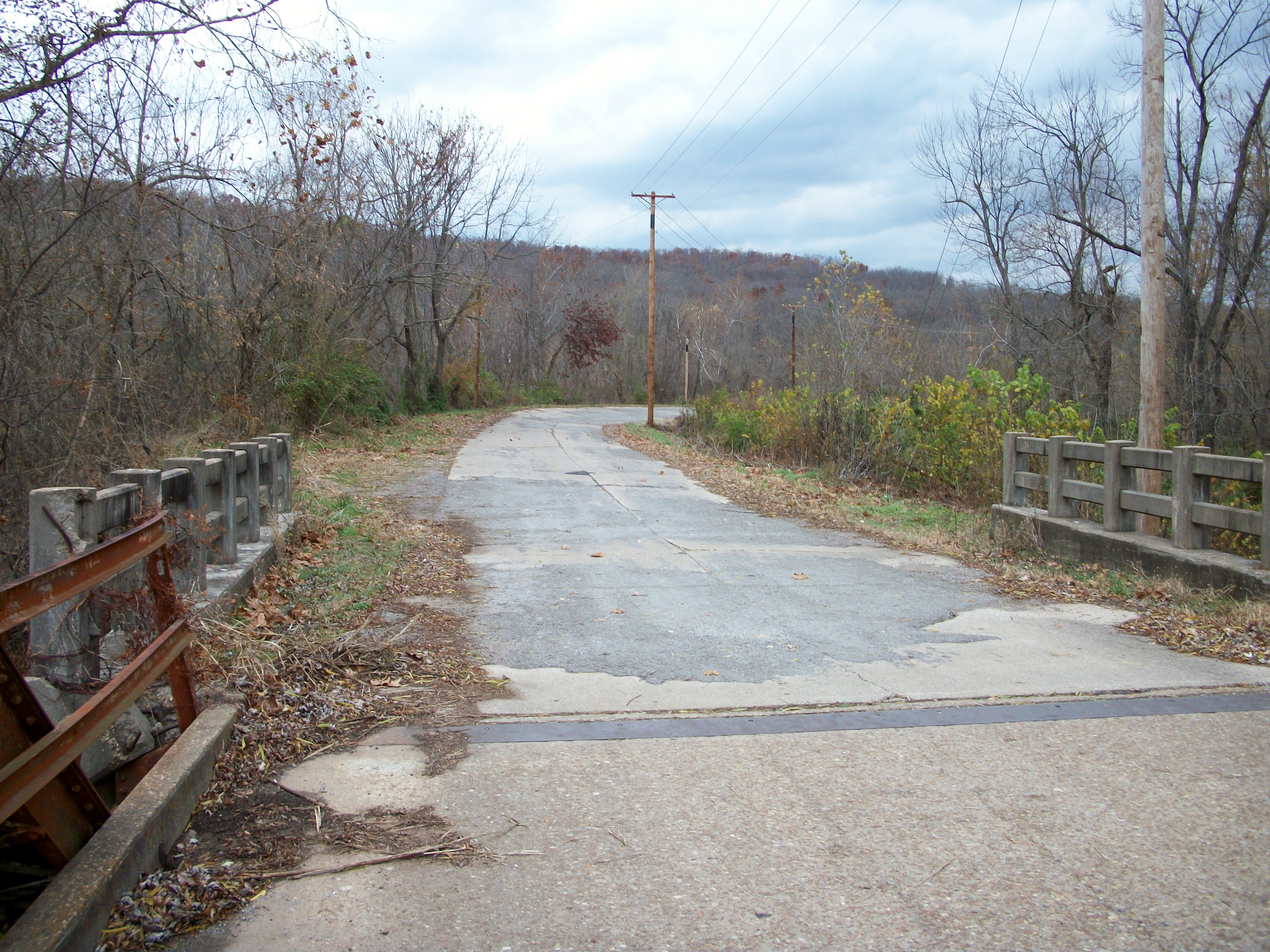 Old US 71 south of Greenland, Arkansas. The road is on the National Register of Historic Places.